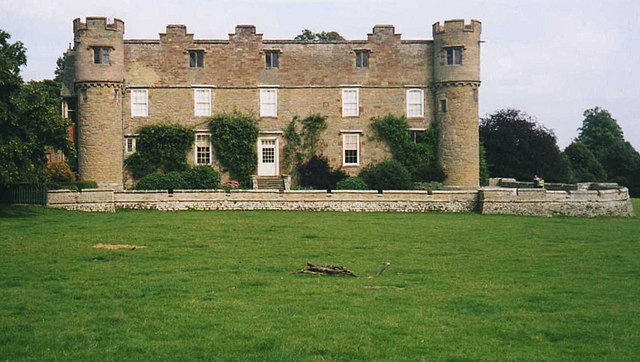 Croft Castle western elevation